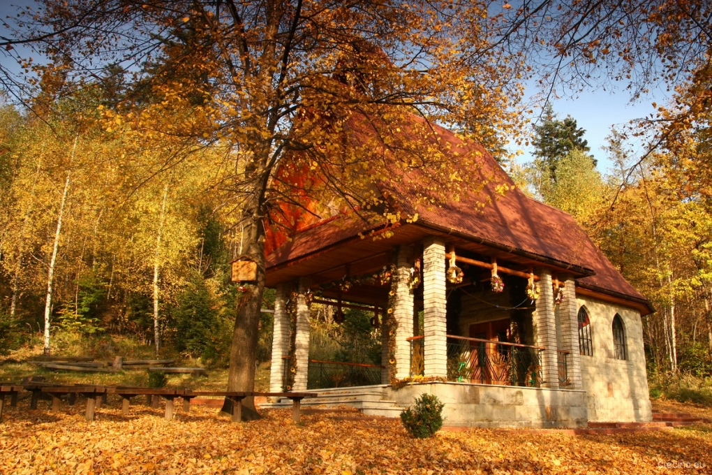 Chapel in Cięcina